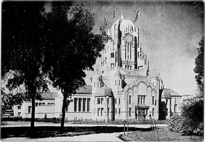 Willem Kromhout (architect). Dutch pavilion at the International Exhibition, San Francisco. 1915.